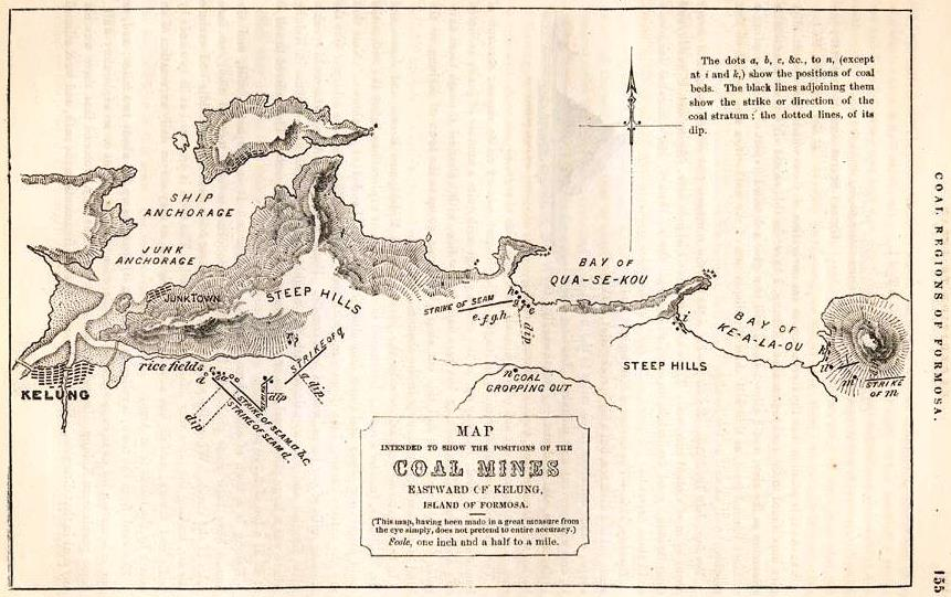 source Map of Coal Mines on Formosa Island in of Volume 2 of the Narrative of the Commodore Matthew Calbraith Perry's Expedition to Japan. This map comes from the official record: Hawks, Francis. (1856). Narrative of the Expedition of an American Squadron to the China Seas and Japan Performed in the Years 1852, 1853 and 1854 under the Command of Commodore M.C. Perry, United States Navy, Washington: A.O.P. Nicholson by order of Congress, 1856; originally published in Senate Executive Documents, No. 34 of 33rd Congress, 2nd Session.